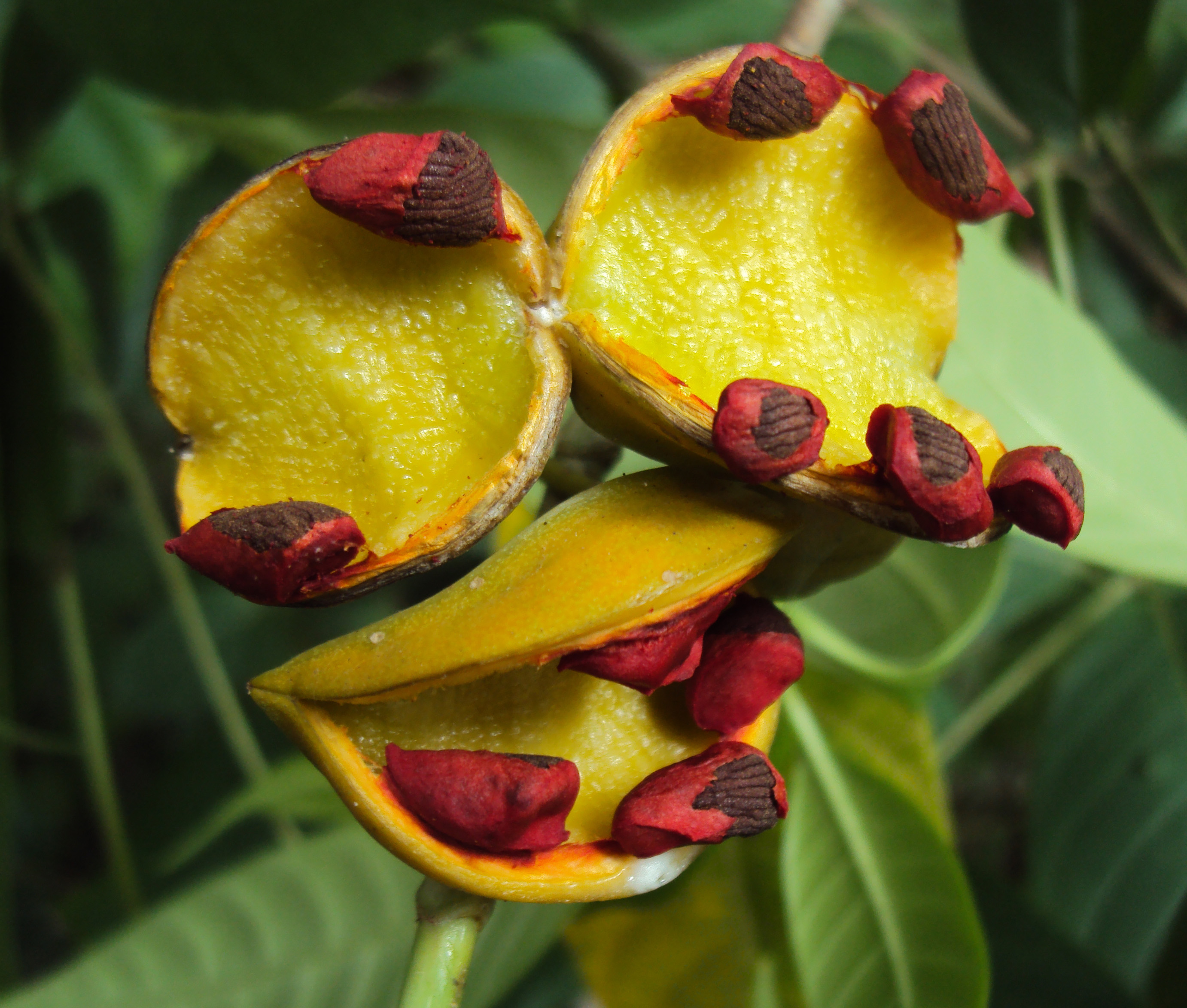 Tabernaemontana alternifolia